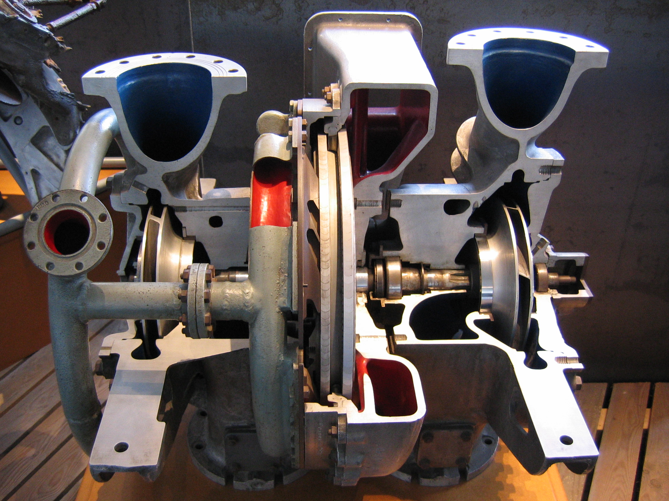 Propellant turbopump of an A4 rocket, photographed in the Peenemünde Information Centre for History and Technology. Red: steam, blue: one side liquid oxygen, one side alcohol. Flow rate: alcohol: 55 liters/s, liquid oxygen: 70 liters/s. Rotation speed: 3800 rpm. Power: 580 horsepower